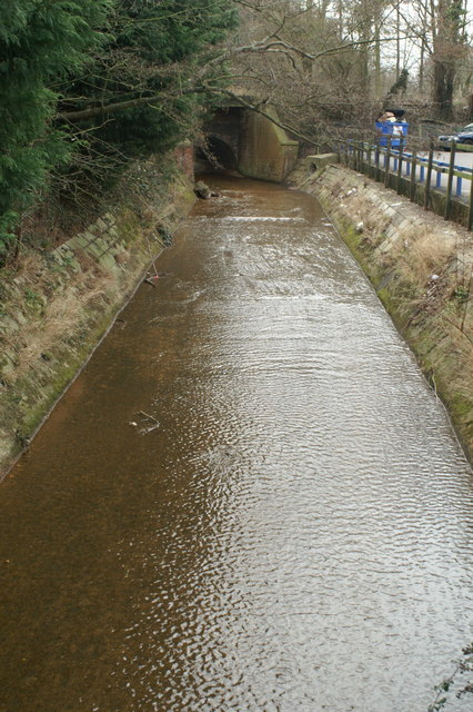 Monks Brook between the railway and Hursley road. Well at least it's not in a tunnel!